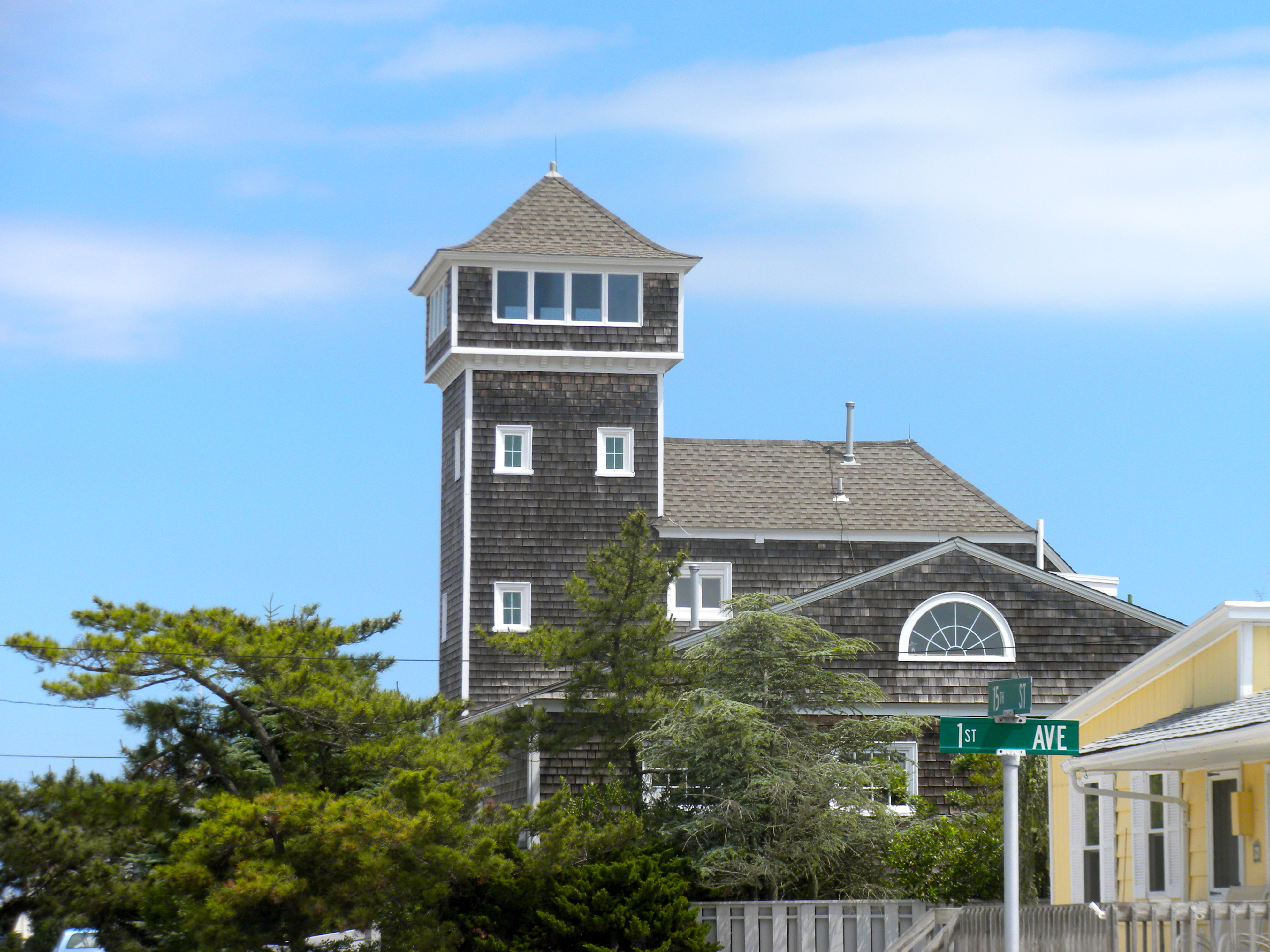 Avalon Life Saving Station on the NRHP since March 2, 1979. At 76 W. 15th St. in Avalon, New Jersey. "Life saving" means saving sailors from shipwreck in the 1800s. Now in the middle of luxury apartments and condos on a fashionable beach neighborhood. Compare to the next station south at Stone Harbor.